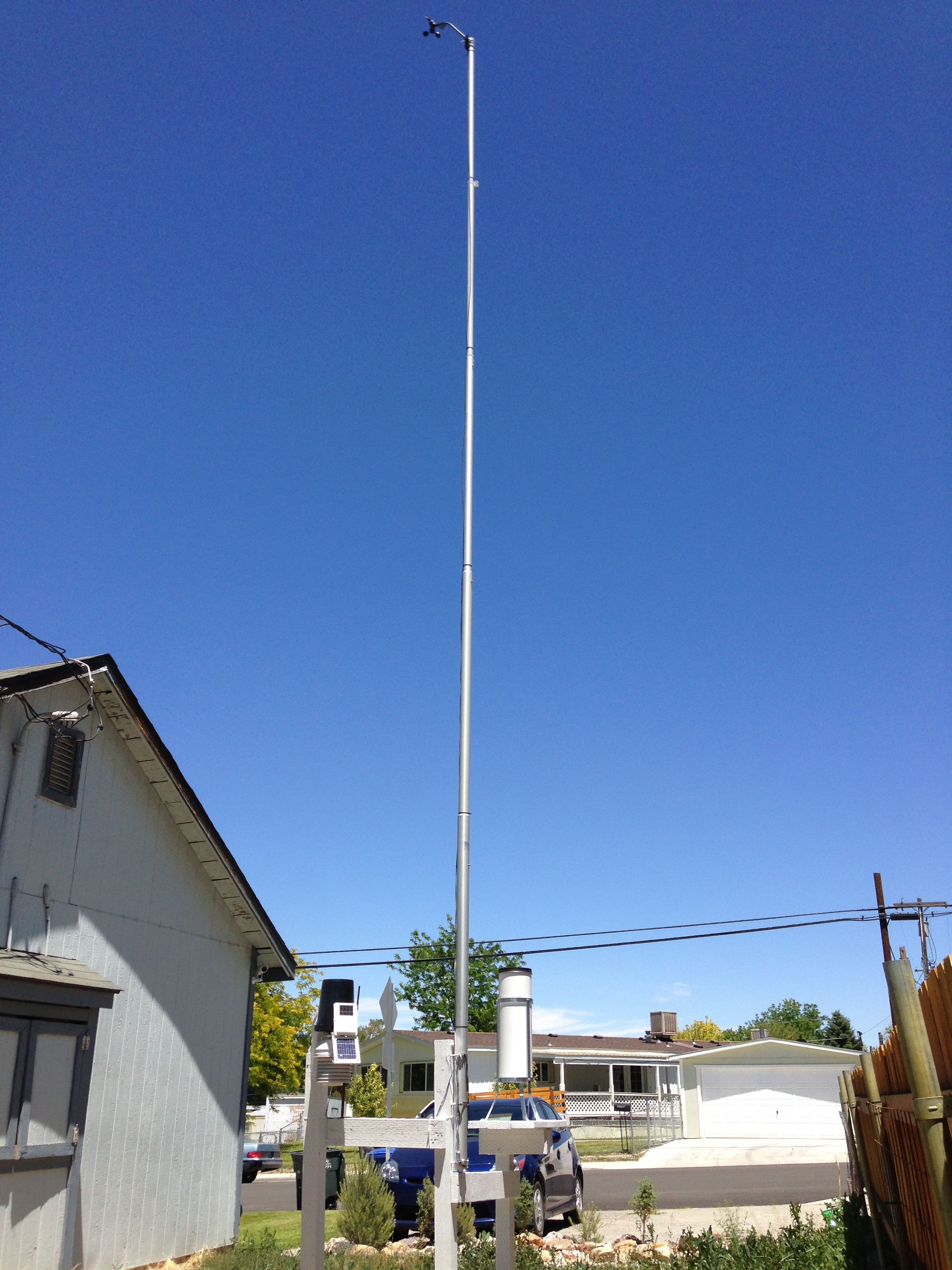 Citizen Weather Observer Program station EW0093 in Elko, Nevada. The mast supports a wind vane and anemometer, while the rain gauge and other sensors are installed near ground level.